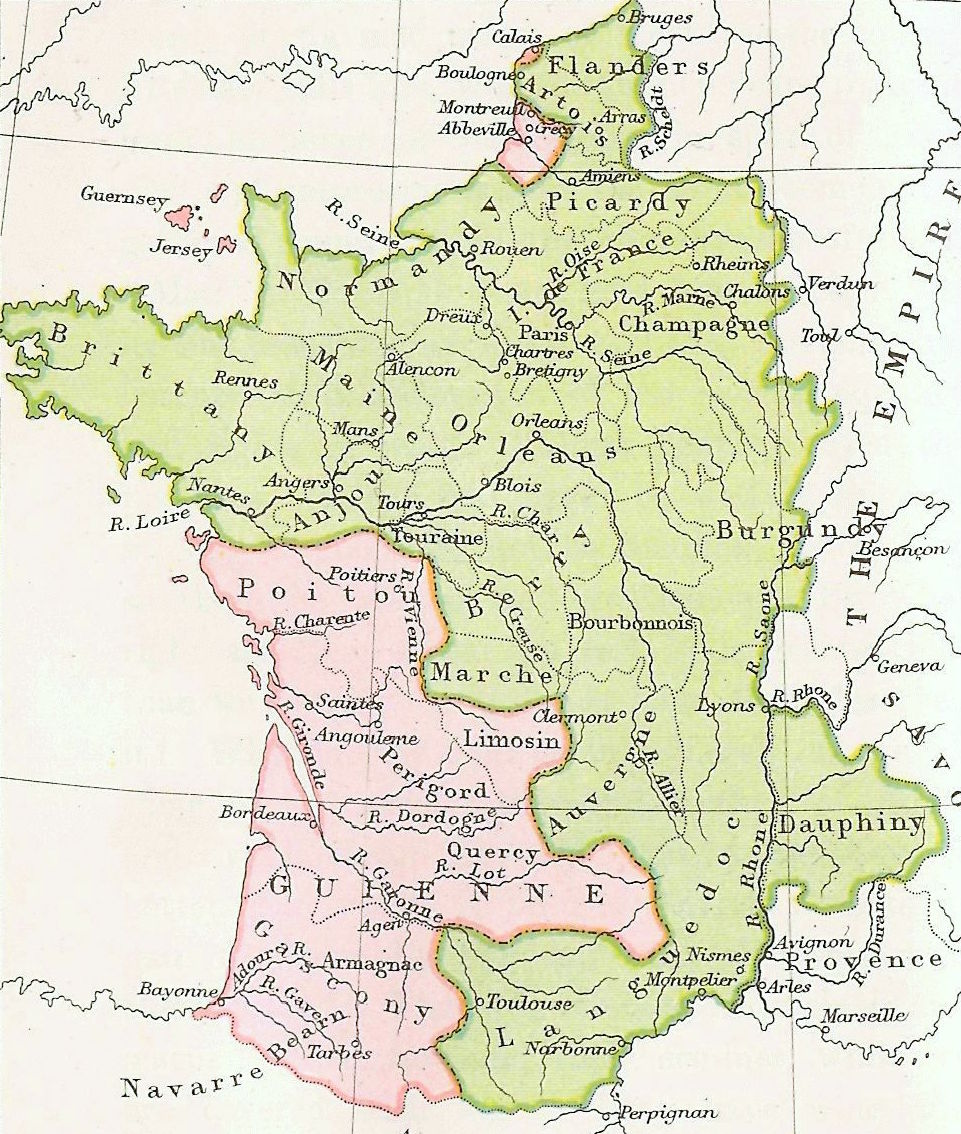 Map showing France at the time of the Treaty of Bretigny.